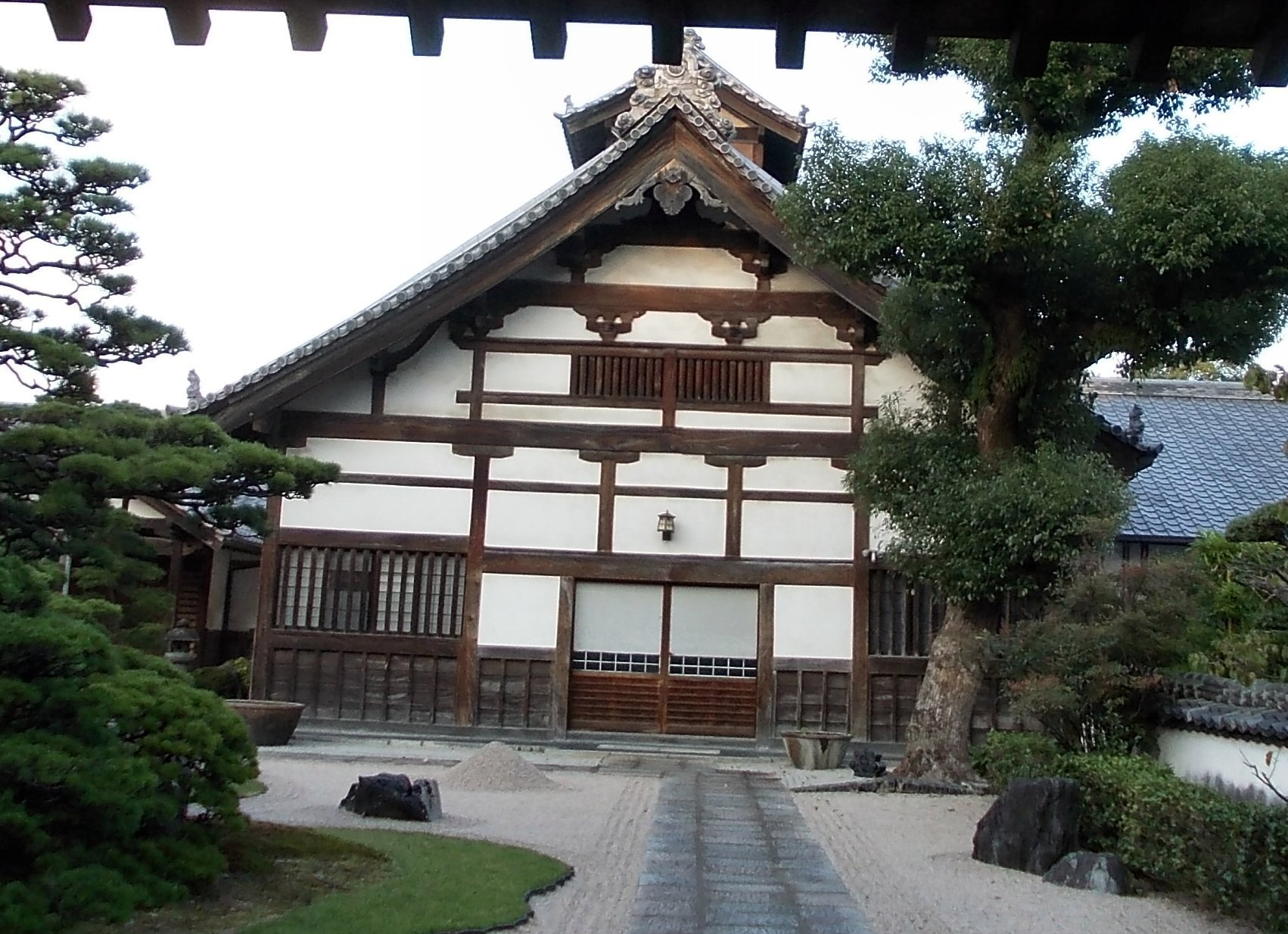 Shofuku Zenji Temple, Hakata-ku, Fukuoka, Japan. Shofuku Zenji Temple is located besides the Shofuku-ji Temple.